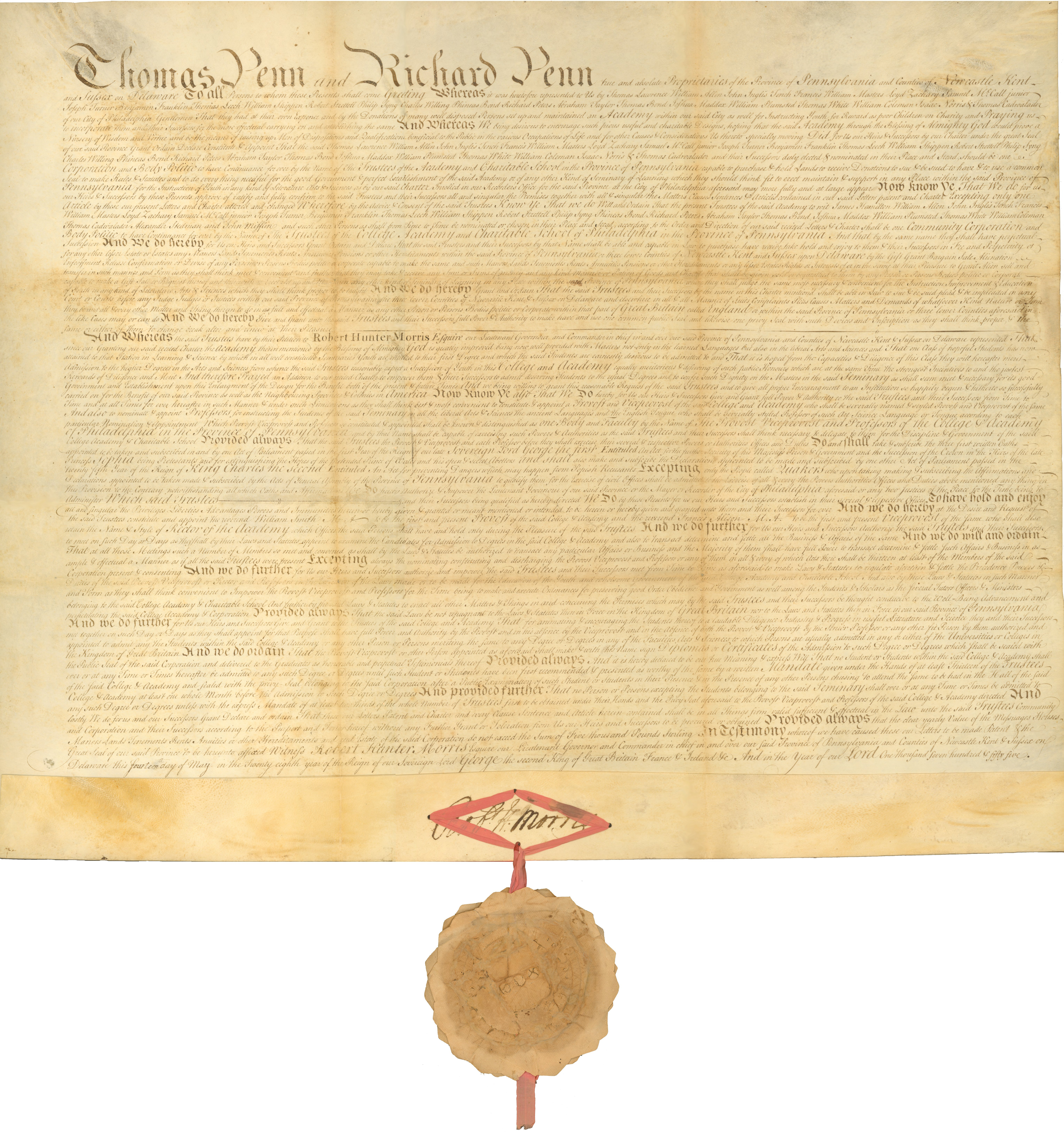 Charter of the College of Philadelphia, which soon became the University of Pennsylvania